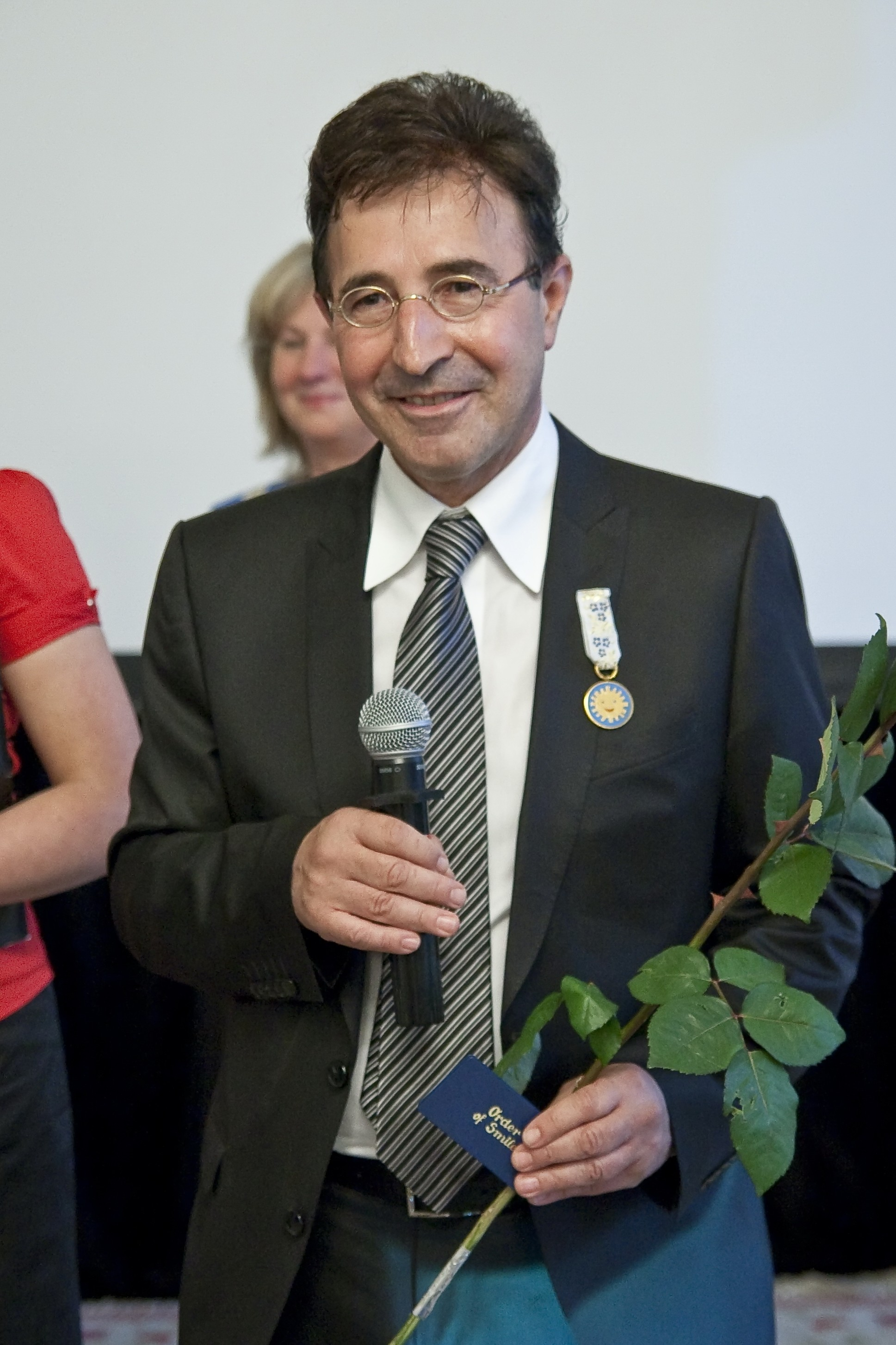 Milton Waner